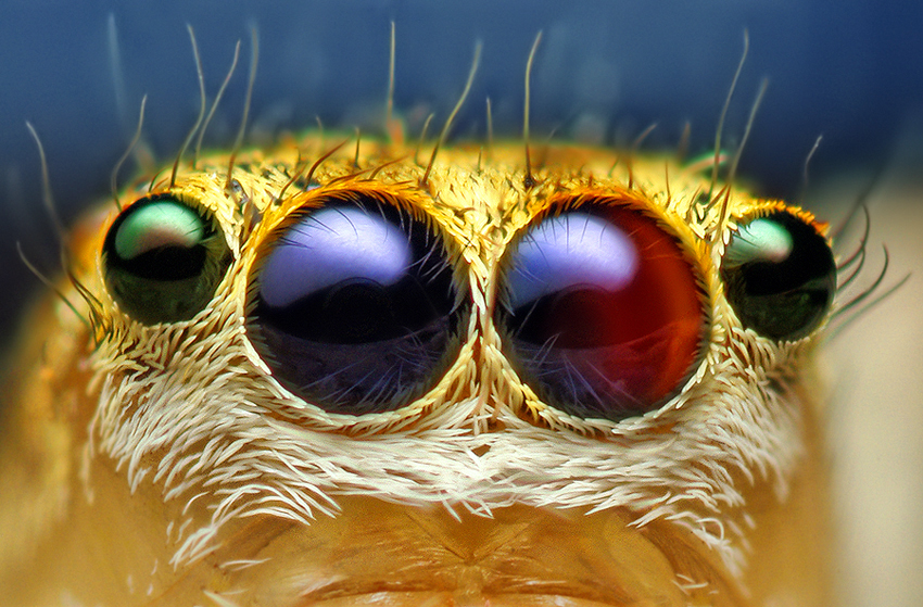 You may have noticed by now that the eyes of jumping spiders can be several colors, but I have noticed that female Maevia iclemens are often exceptionally vivid. With their beautiful deep blue anterior median eyes displaying the occasional moving wash of red due to the internal movement of the spider's retina, they are truly remarkable. I found this little (~5mm) female Maevia inclemens in a light fixture on my back porch, and upon noticing that she was going to be quite a cooperative subject, I ran back inside and grabbed my macro bellows. I have no way of judging exactly what magnification the photo above was taken at, but I am confident it was taken past 5:1 with th 28mm reversed to the bellows. I spent a little bit watching her through the viewfinder as I could actually see that red haze move about behind those lenses! It's absolutely remarkable to see these movements - I'll have to try to get a video of it sometime soon. The photo above is a focus stack from 4 photos taken at f/8 and cropped pretty significantly. I only got 9 photos of this spider before my good luck turned and she hopped away and I lost her. I thought I was getting better at finding escapees, but her flee was successful - I never found her. To read more about jumping spider vision on Wikipedia (with a photo of mine), go here: And Dr. Wayne Maddison has a fantastic page about salticid vision over at Tolweb here